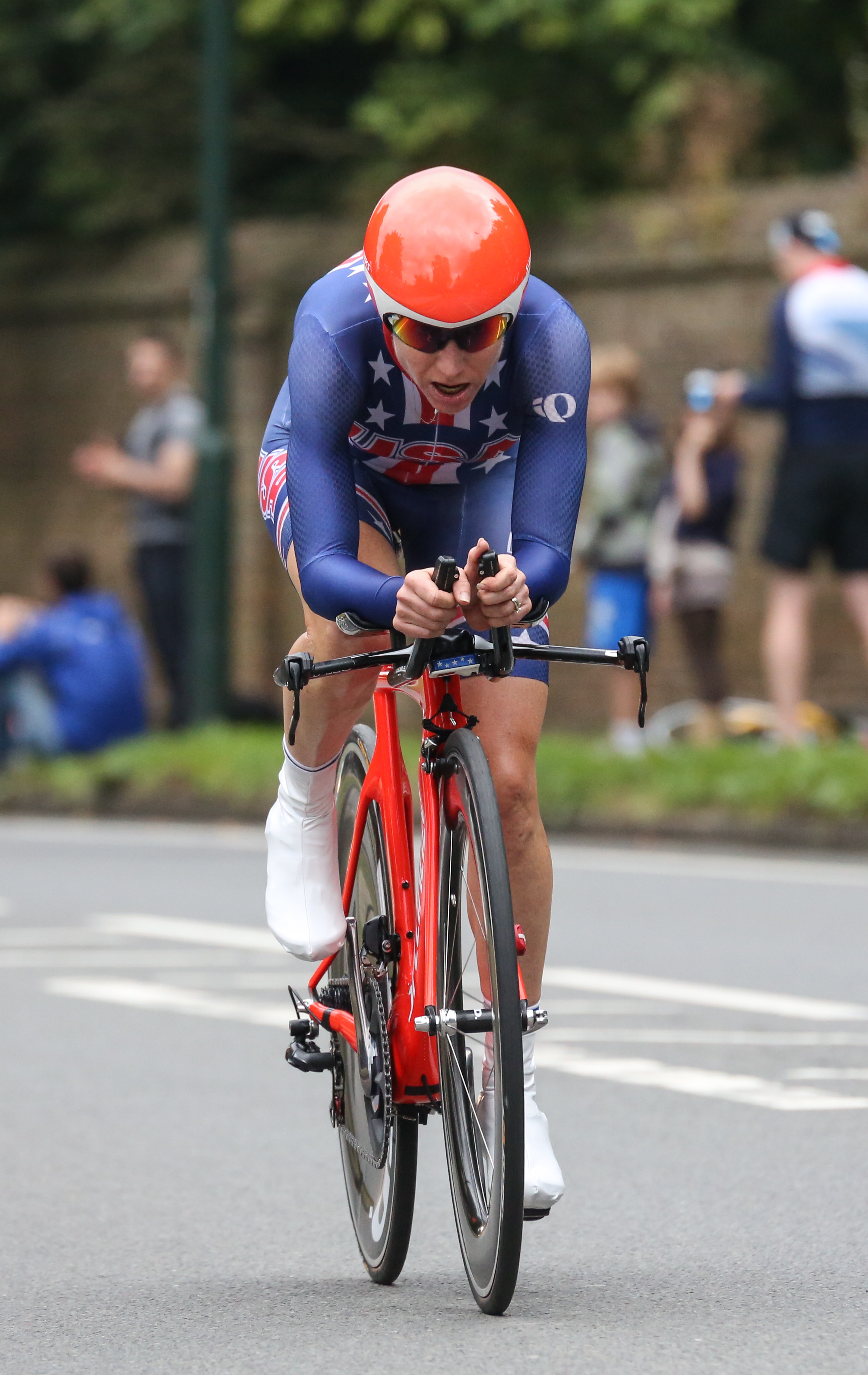 Amber Neben competing in the London 2012 Women's Olympic Time Trial.